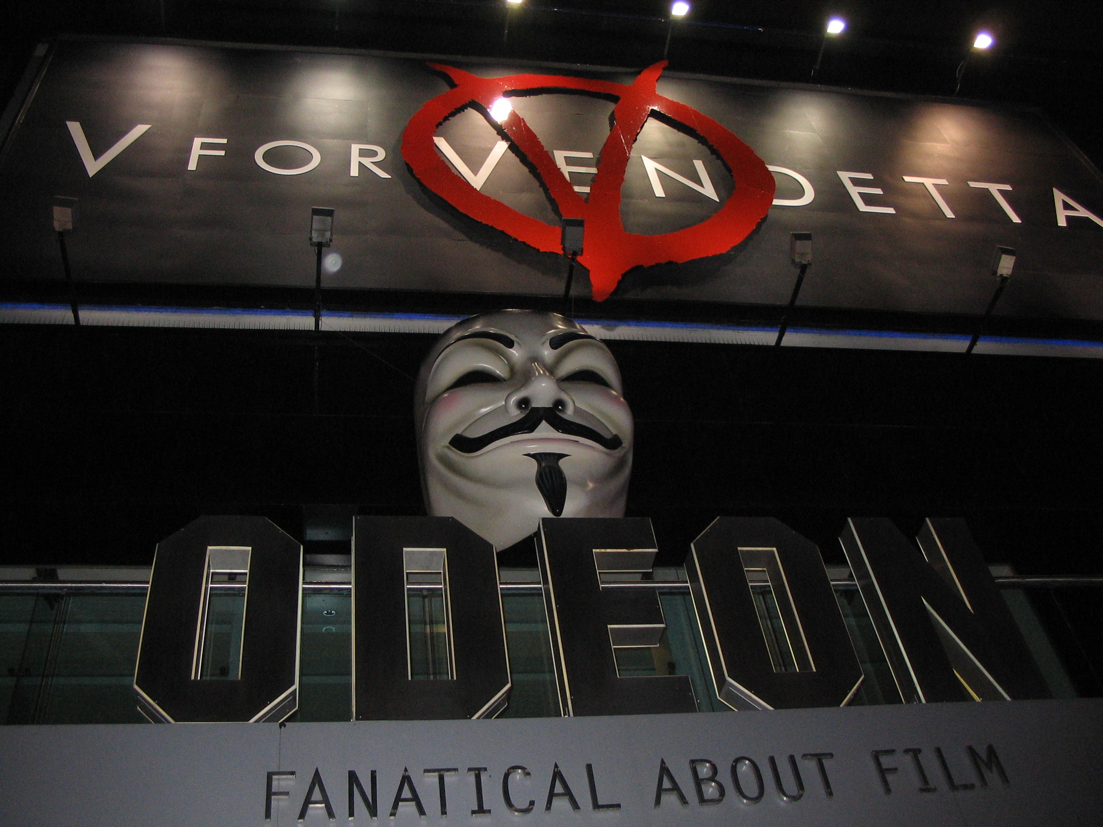 The V for Vendetta film playing at Odeon Leicester Square in London, England.